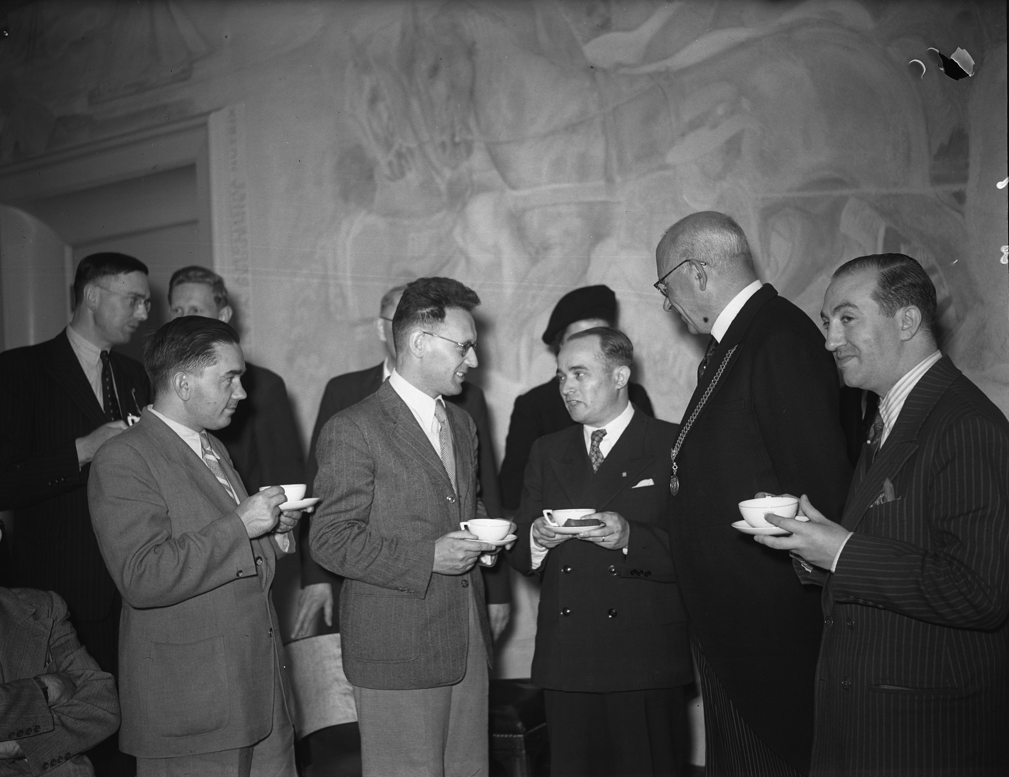 Groningen chess tournament 1946. Front row left to right: Aleksandr Kotov, Mikhail Botwinnik, Salo Flohr, Groningen mayor Cort van der Linden, Miguel Najdorf. Back row left: Max Euwe